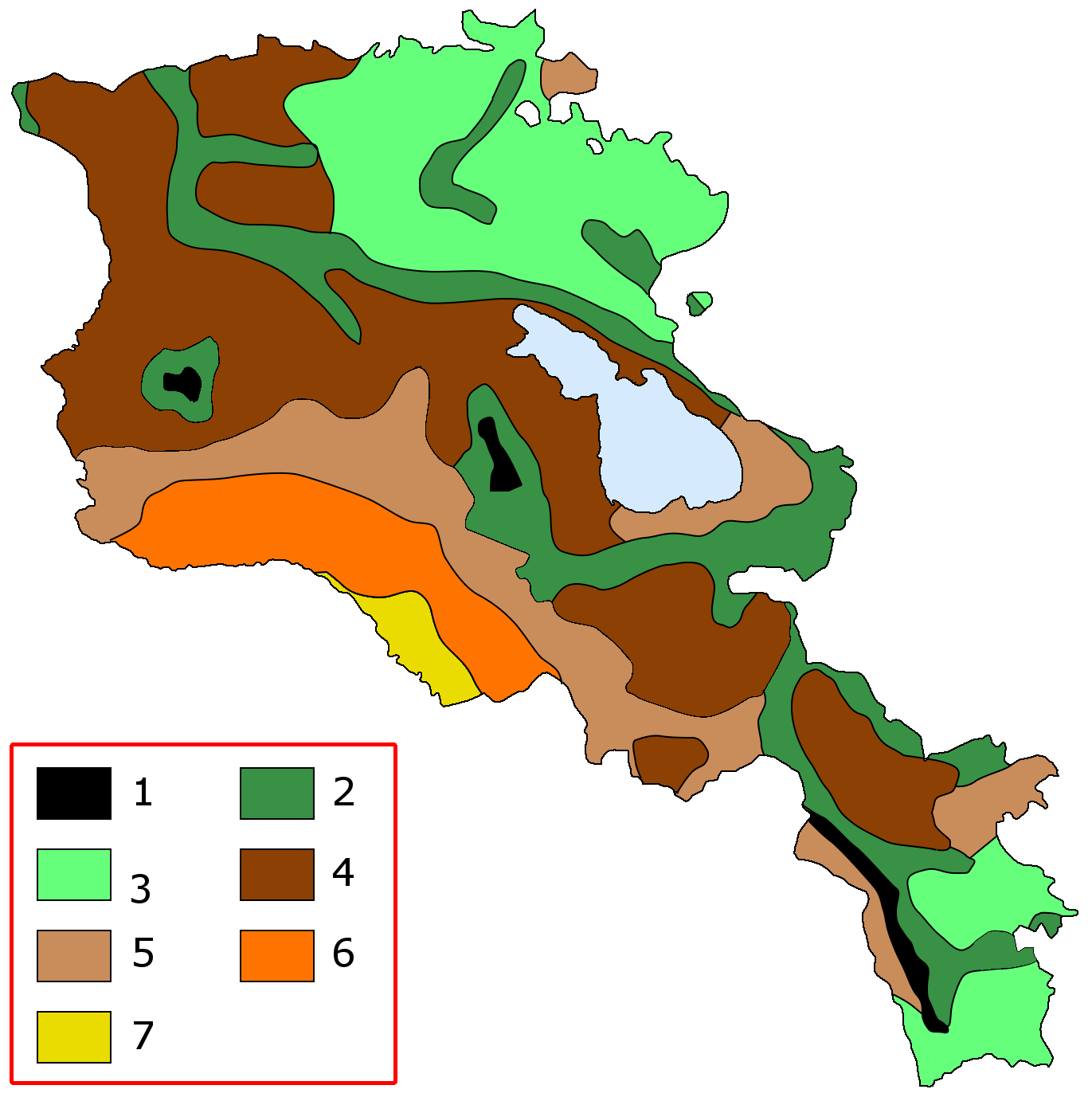 Map of soils of Armenia